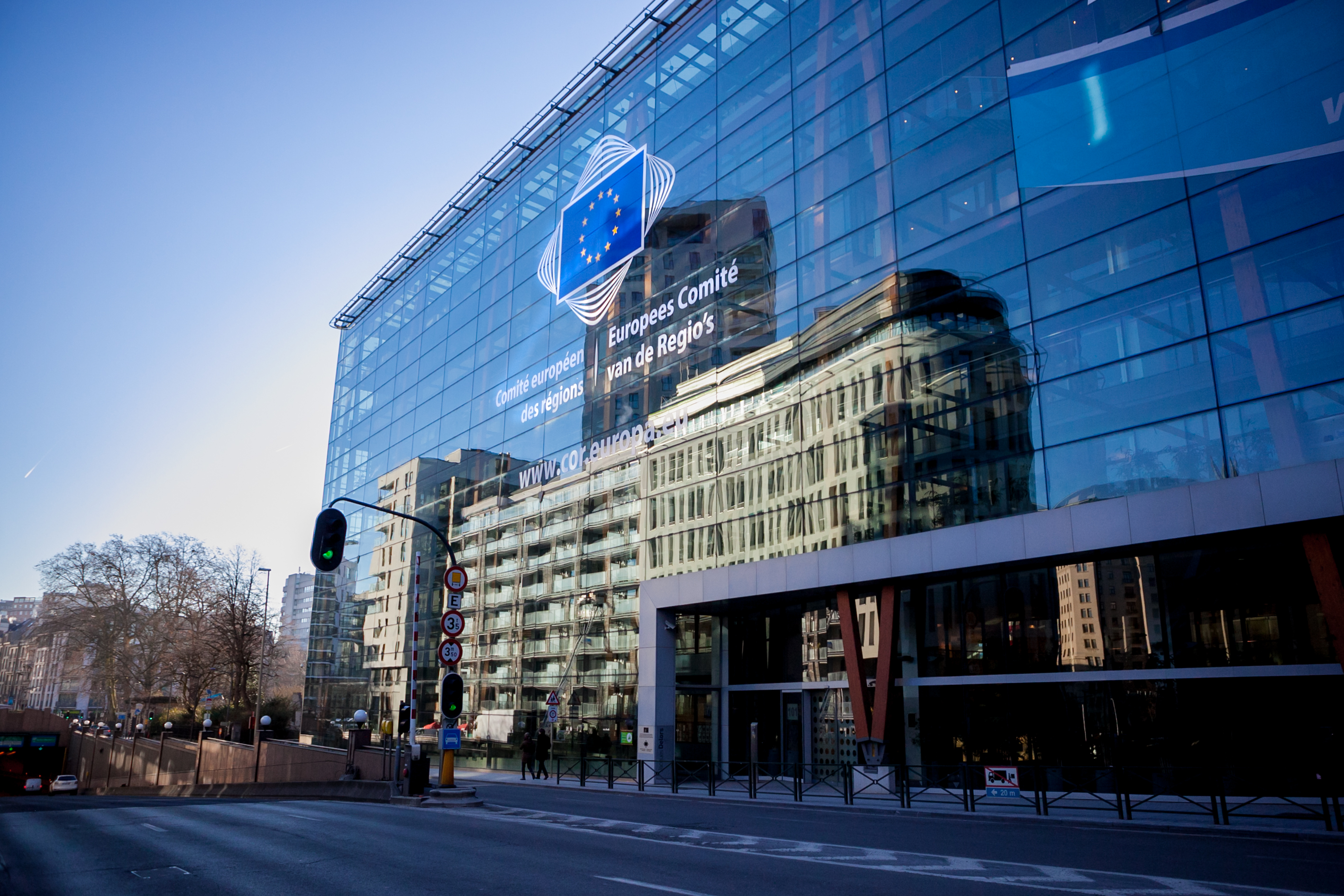 European Committee of the Regions' building in Brussels, Belgium